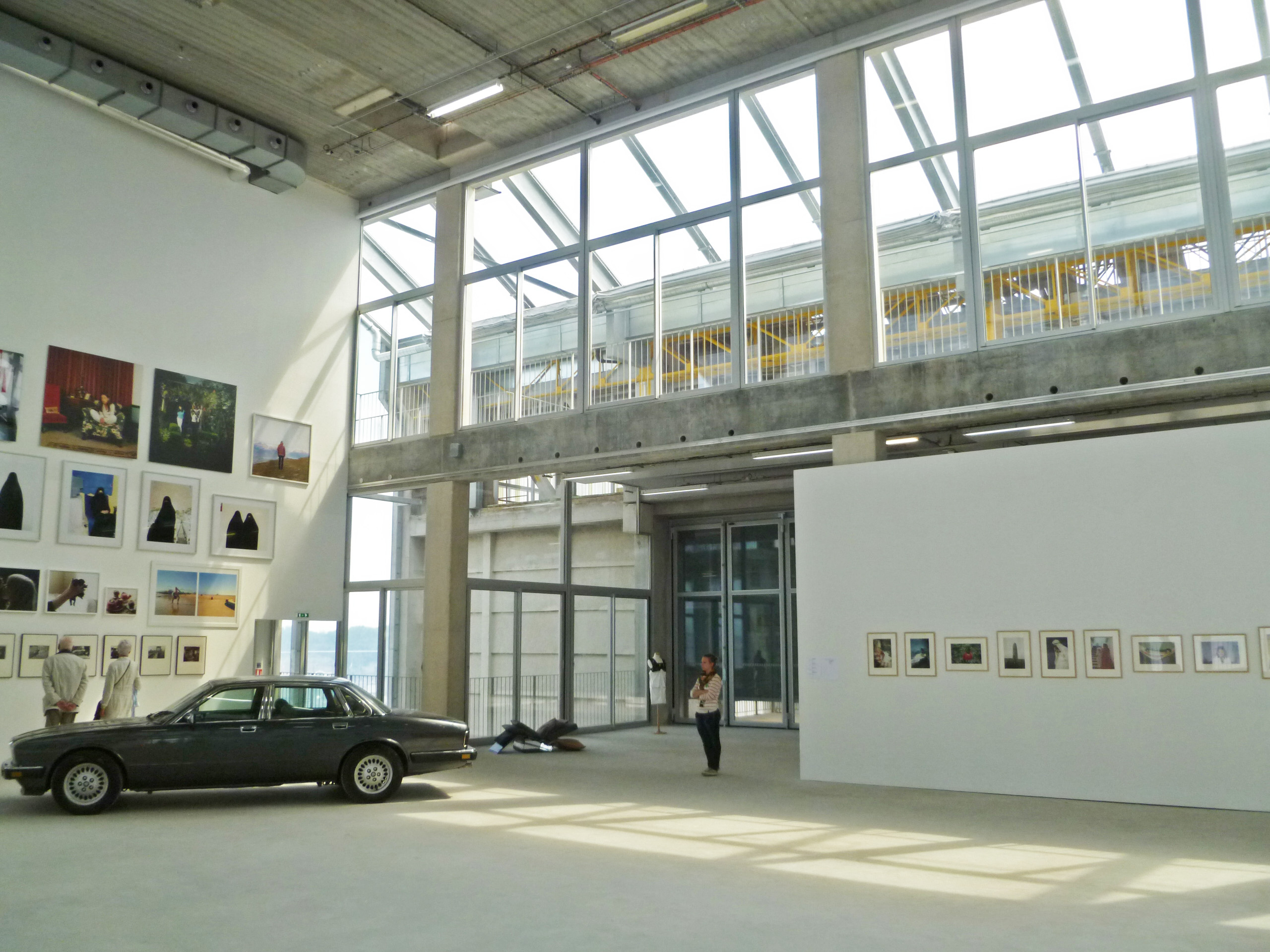 View inside the FRAC (Fonds régional d'art contemporain), museum of contemporary art in Dunkirk, France